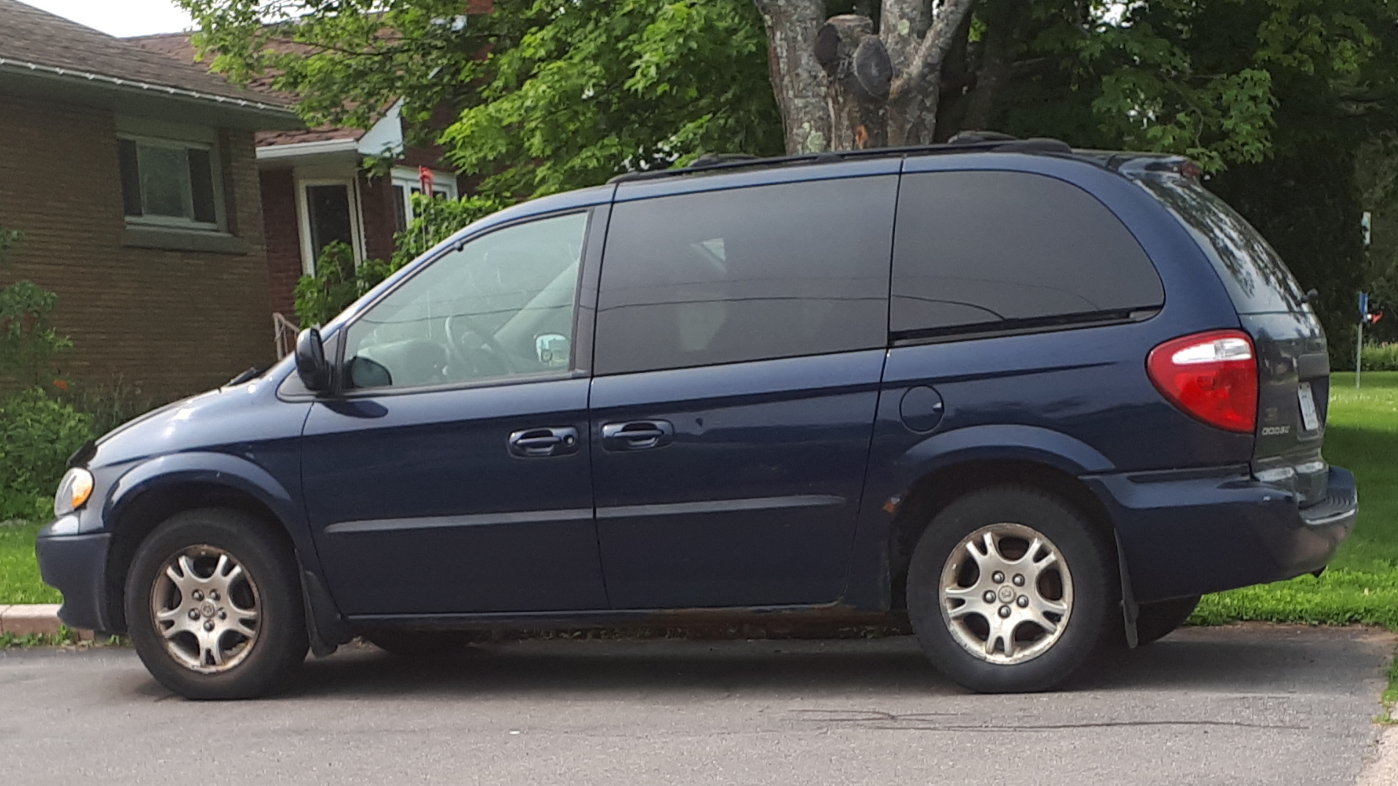 2002-2004 Dodge Caravan photographed in Sault Ste. Marie, Ontario, Canada